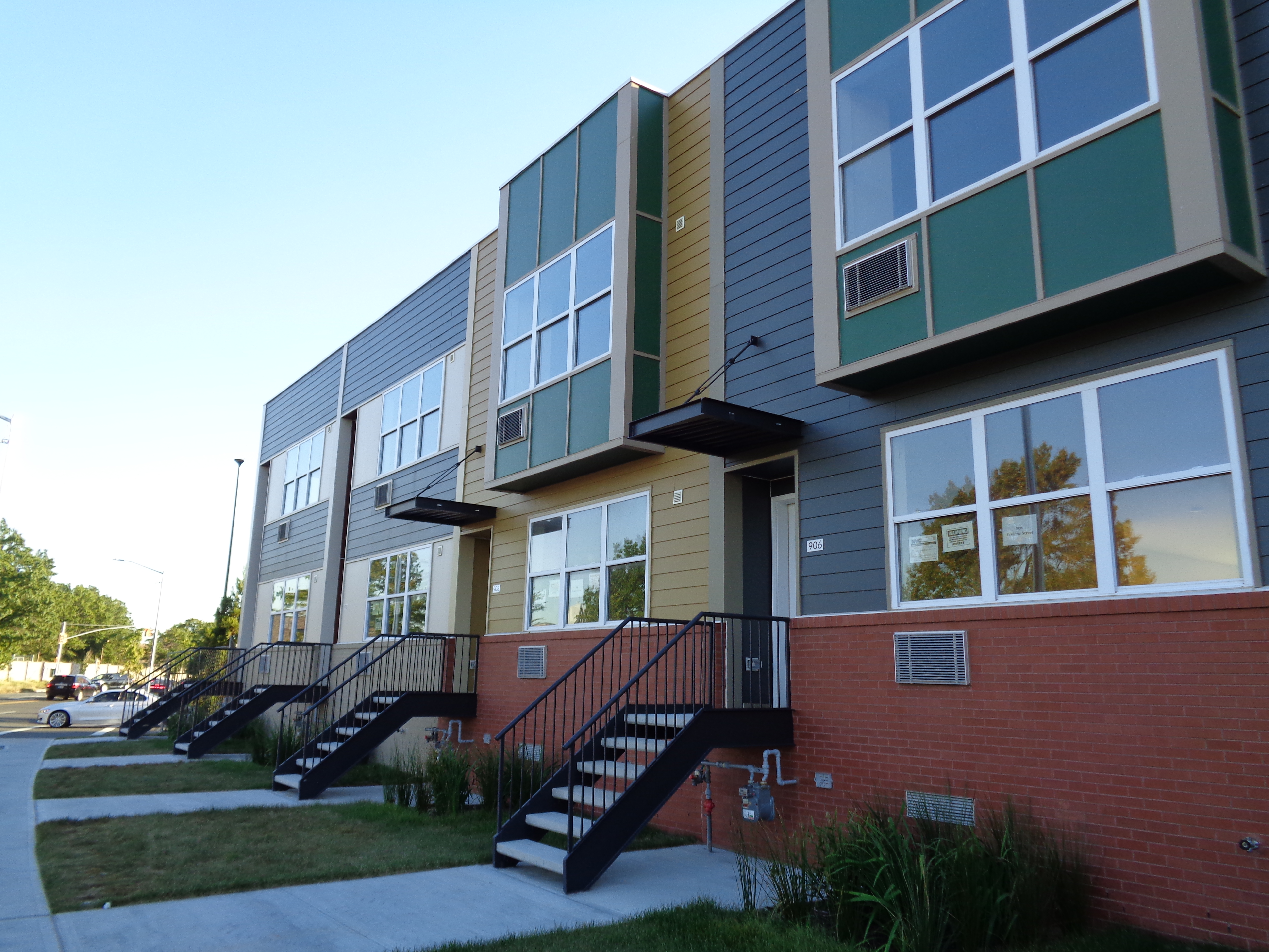 A rowhouse of Nehemia Spring Creek at Erskine Street and Schroeders Avenue in Spring Creek, Brooklyn.